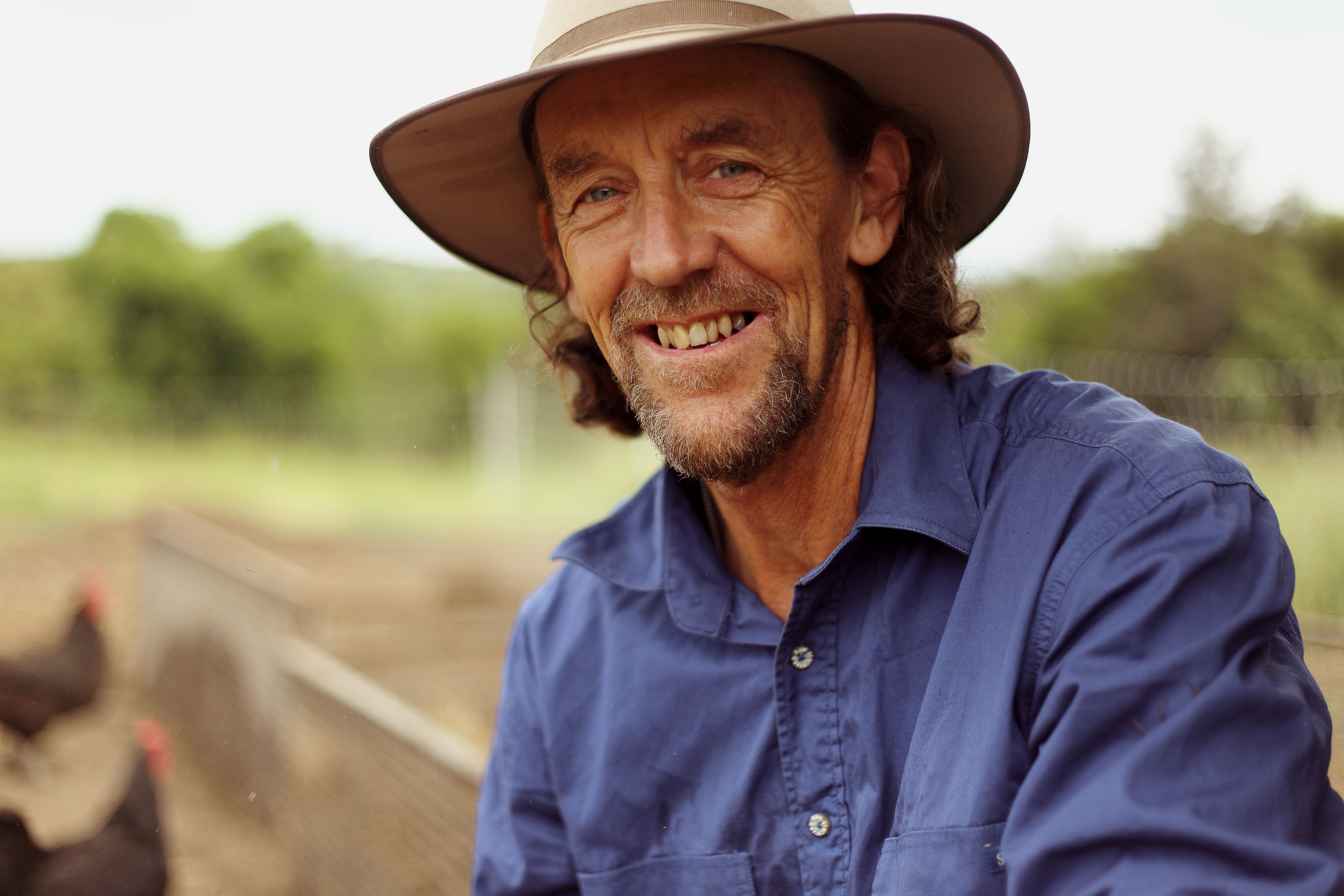 Permaculturalist Geoff Lawton 2015